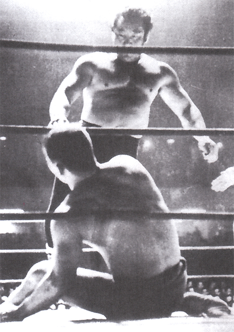 Masahiko Kimura vs. Rikidozan